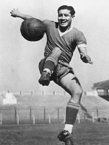 Paraguayan football striker Arsenio Erico playing the ball durant his tenure on Argentine Club Atlético Independiente.